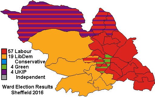 Author: J.G.Harston. All my own work.